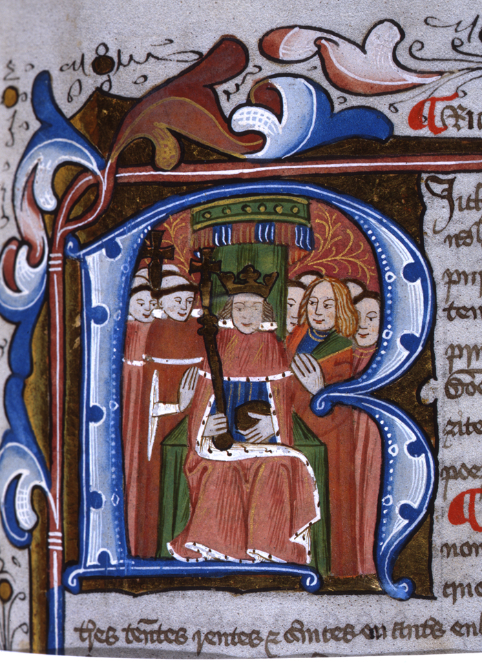 Description: Illuminated initial from a 15th century book of statutes showing the King (Edward IV?) in Parliament seated under a canopy with the Lords Spiritual (left) and the Lords Temporal (right). Date: c.1480 Our Catalogue Reference: E 164/11 This image is from the collections of The National Archives. Feel free to share it within the spirit of the Commons. For high quality reproductions of any item from our collection please contact our image library.